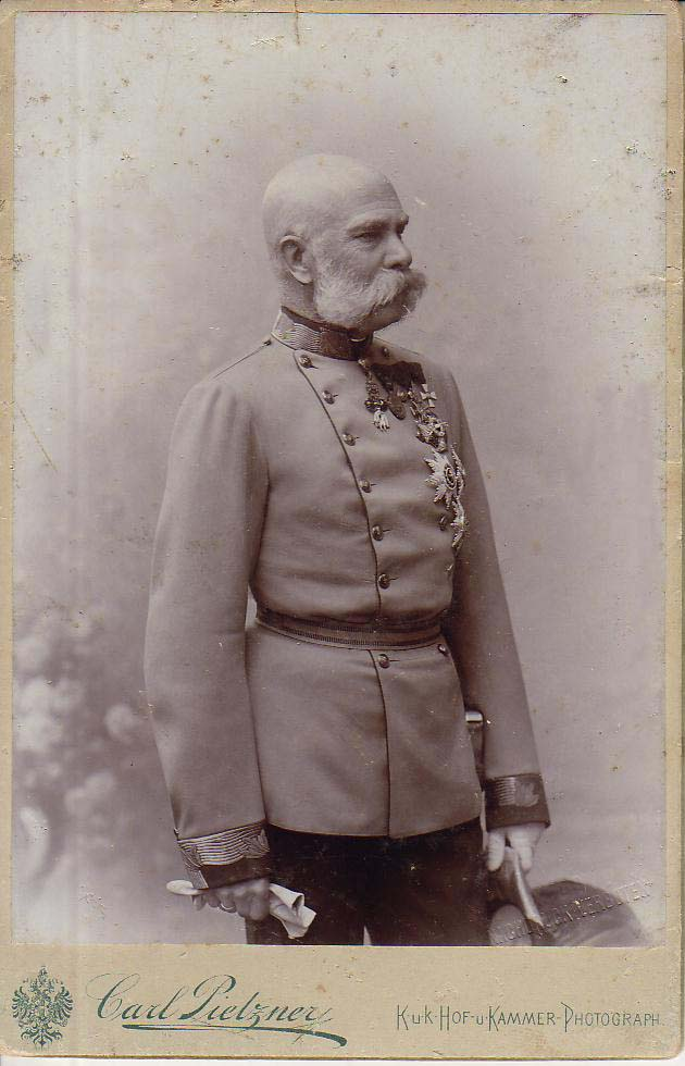 Franz Joseph I of Austria, emperor of Austria-Hungary.